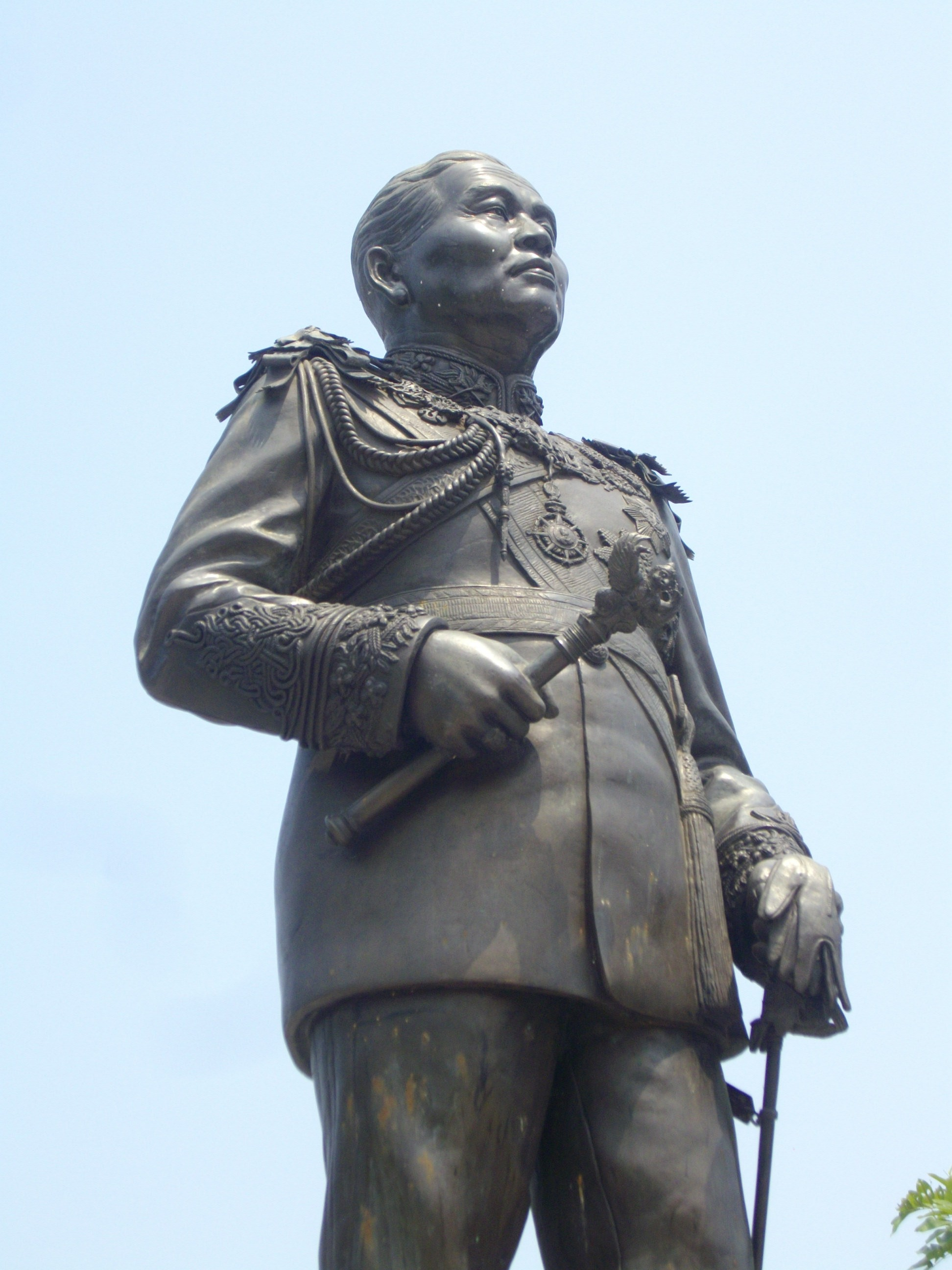 Monument of Field Marshal Sarit Dhanarajata, former Prime Minister of Thailand (1959-1963), in Khon Kaen Province, Thailand.